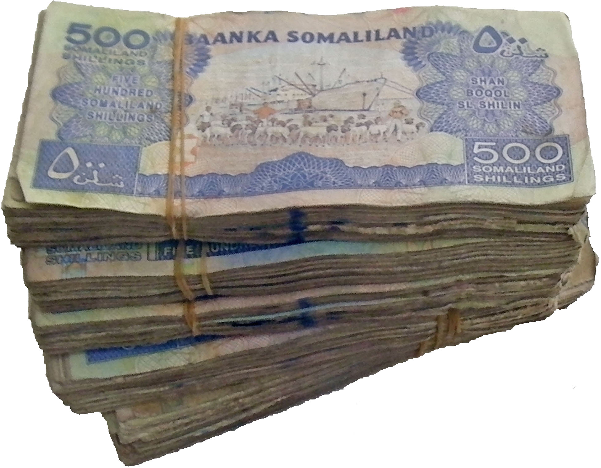 The only unit of exchange in Somaliland is the 500 shillings note, which had a value of about 9 cents in early 2011.